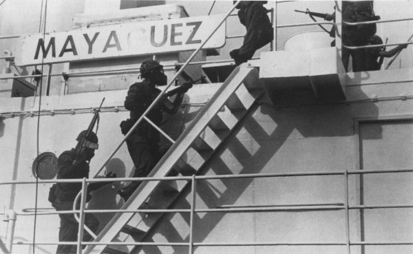 Members of Company D, 1st Battalion, 4th Marines board the Mayaguez. Gas masks were worn because the ship was bombed with tear-gas cannisters by the Air Force.